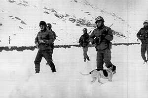 Argentine infantery 1978